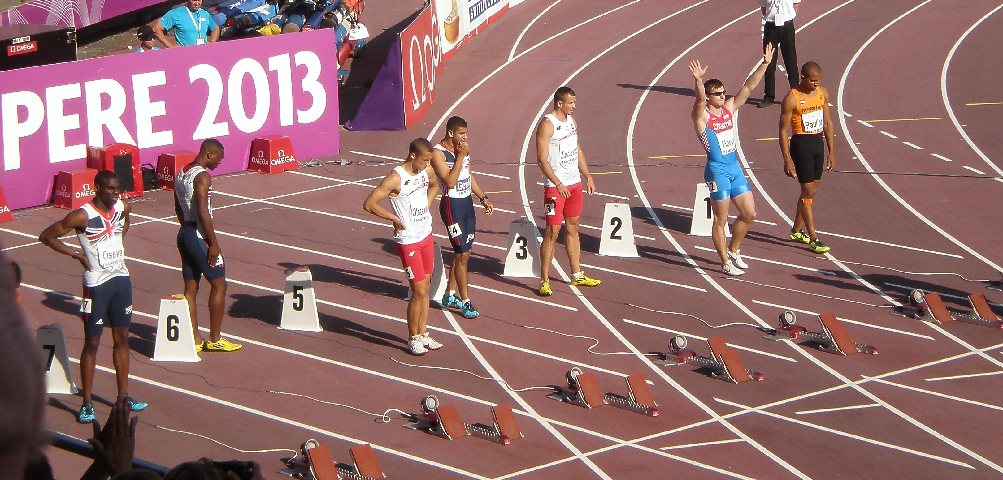 Men's 100 metres Final at U23 European Championships. Lane order from lane 1: Hensley Paulina, Dario Horvat, Grzegorz Zimniewicz, Adam Gemili, Remigiusz Olszewski, Deji Tobias, Samuel Osewa, and Eduard Viles (not in the picture)